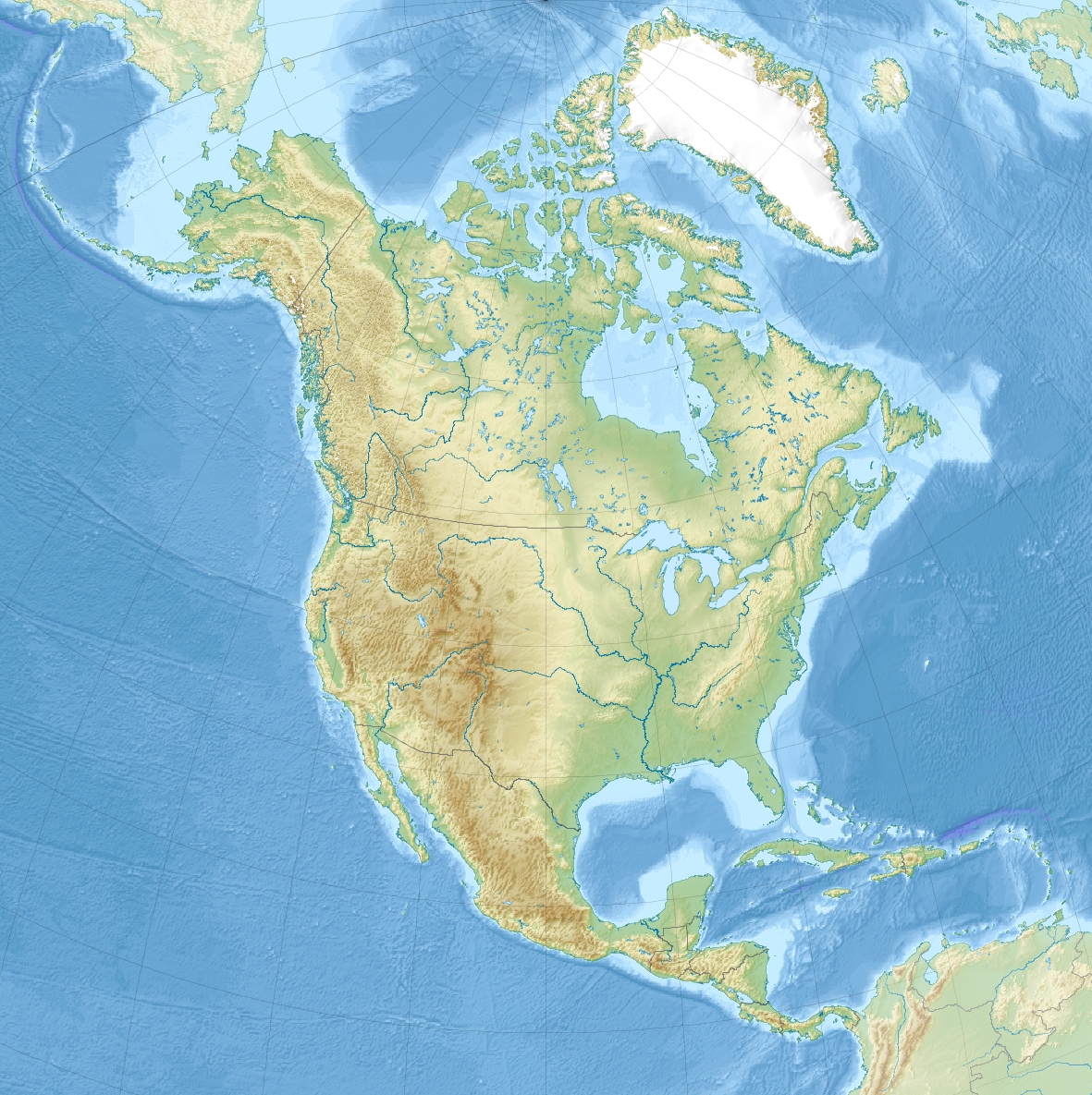 Relief location map of North America. Projection: Lambert azimuthal equal-area projection. Area of interest: N: 90.0° N S: 5.0° N W: -140.0° E E: -60.0° E Projection center: NS: 47.5° N WE: -100.0° E GMT projection: -JA-100/47.5/20.0c GMT region: -R-138.3726888474925/-3.941007863604182/2.441656573833029/50.63933645705661r GMT region for grdcut: -R-220.0/-4.0/20.0/90.0r Relief: SRTM30plus. Made with Natural Earth. Free vector and raster map data @ .